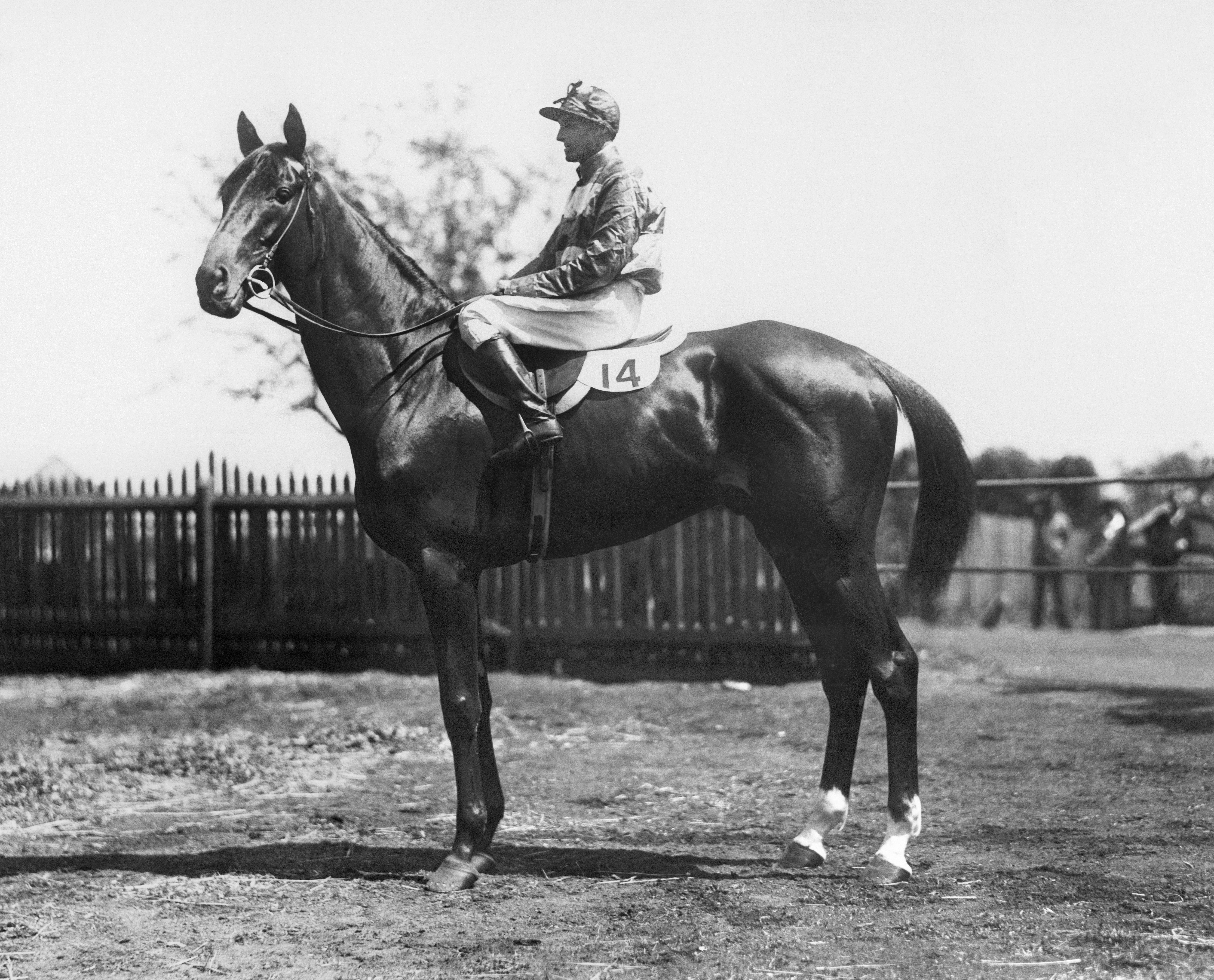 1931 VATC Caulfield Cup photo scanned from original digitally optimised